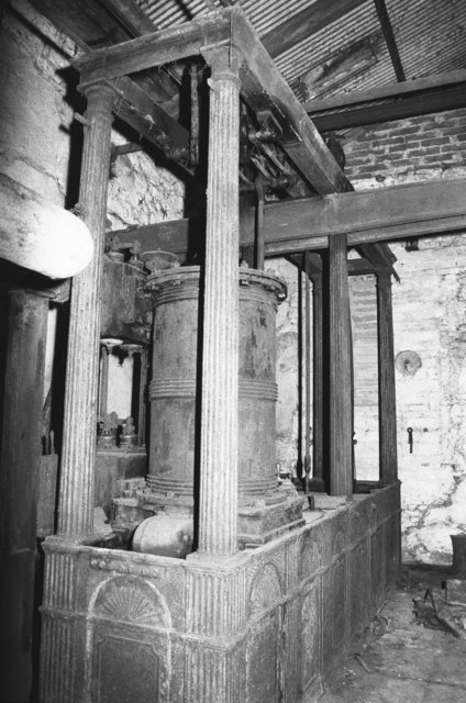 Beam engine, Midleton Distillery A six-column, tank bed beam engine. This has been preserved as part of the heritage attraction. A larger beam engine was removed to Straffan near Dublin.